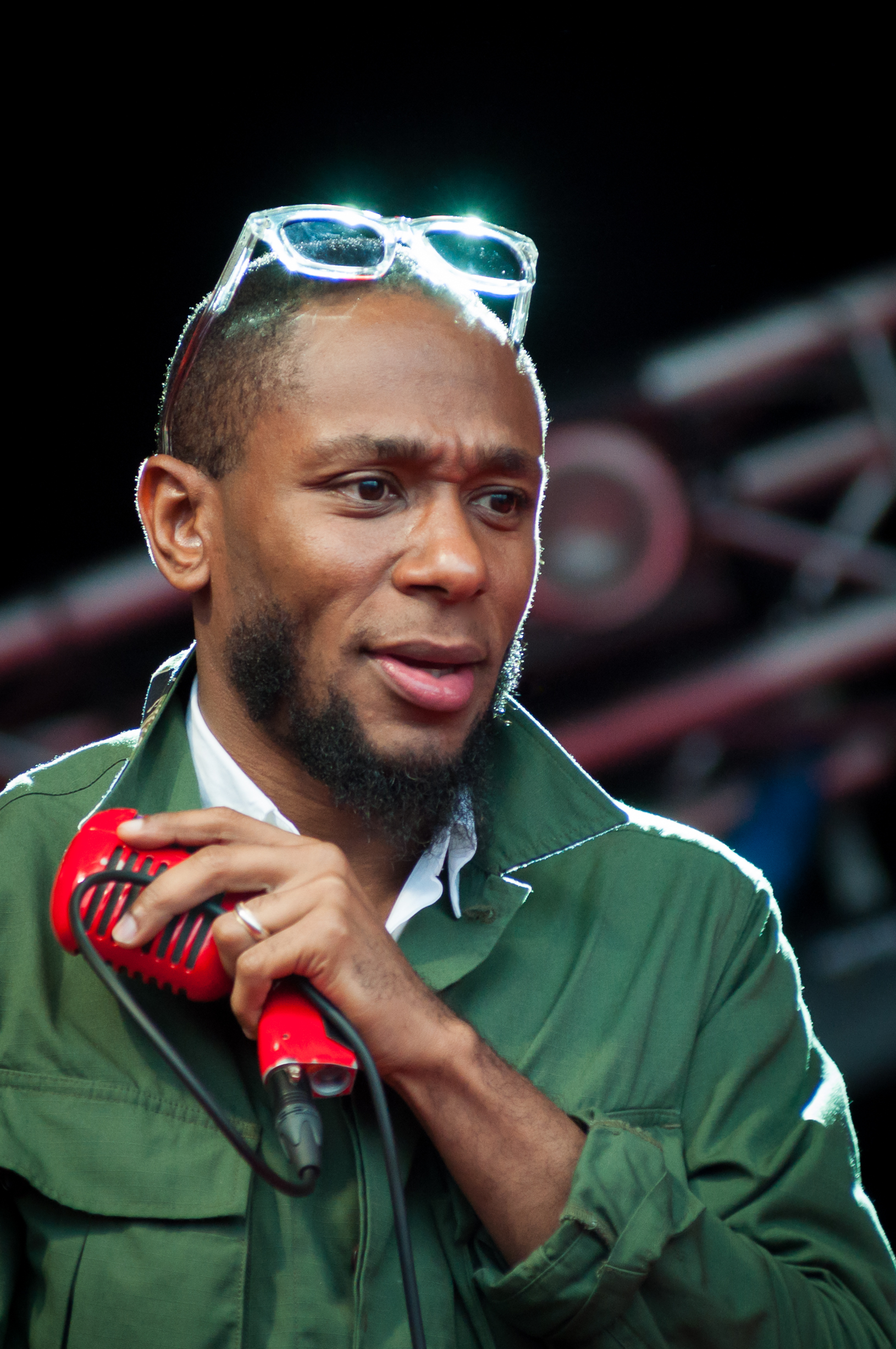 Mos Def performing at the 2012 Ilosaarirock Festival in Joensuu, Finland.